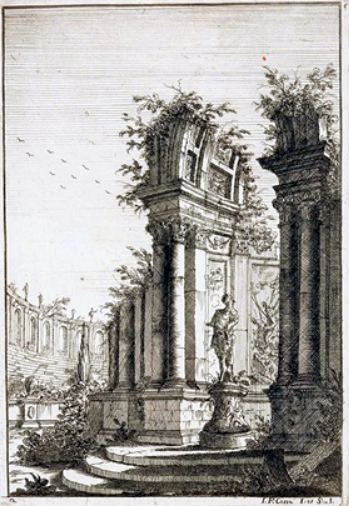 Stampa da incisione - Costa - Rovine d'archi